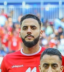 Tunisia national football team